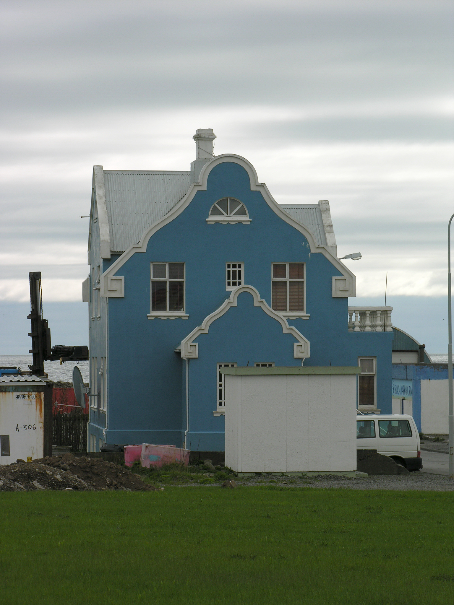 Iceland, Akranes